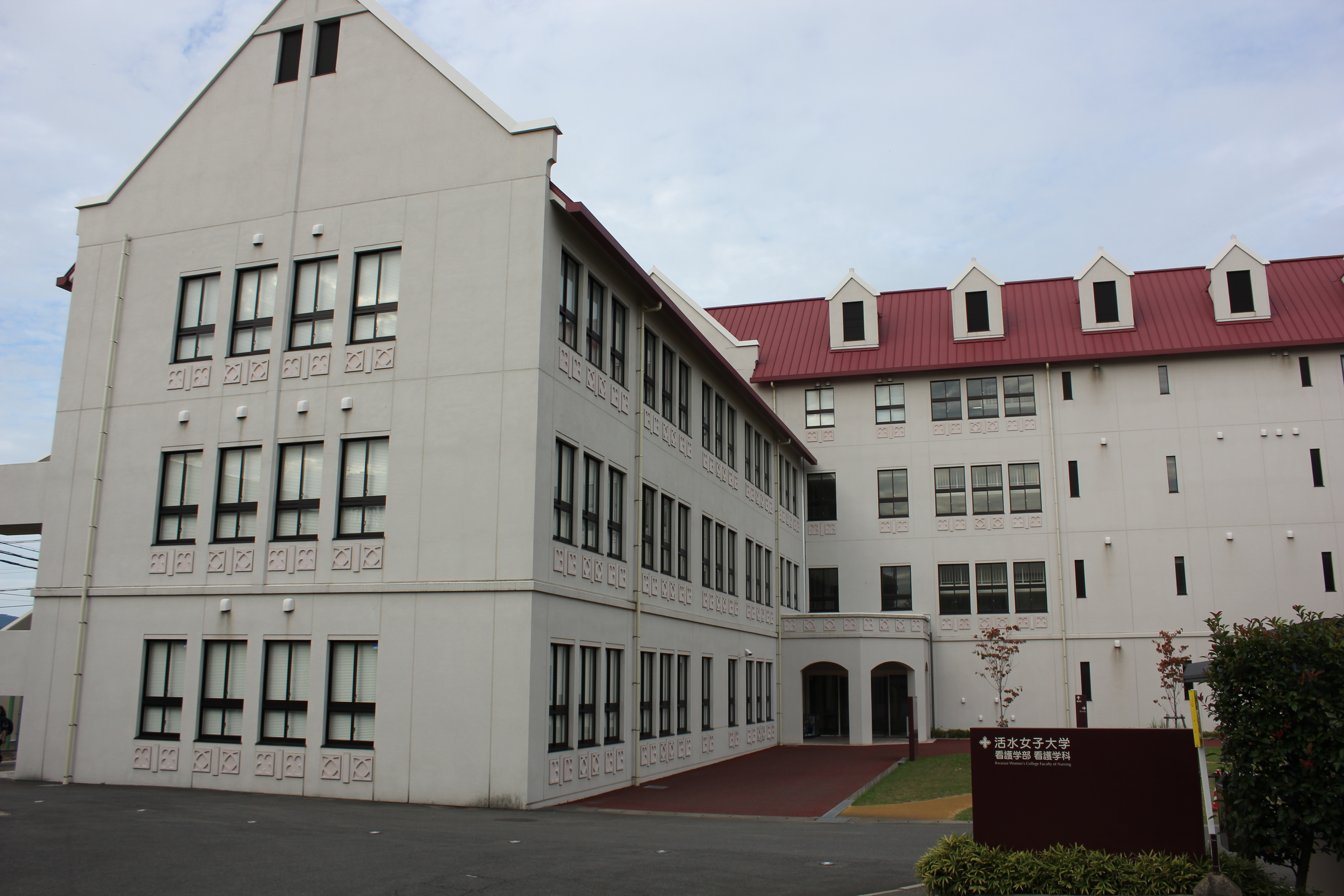 Kwassui Women's College